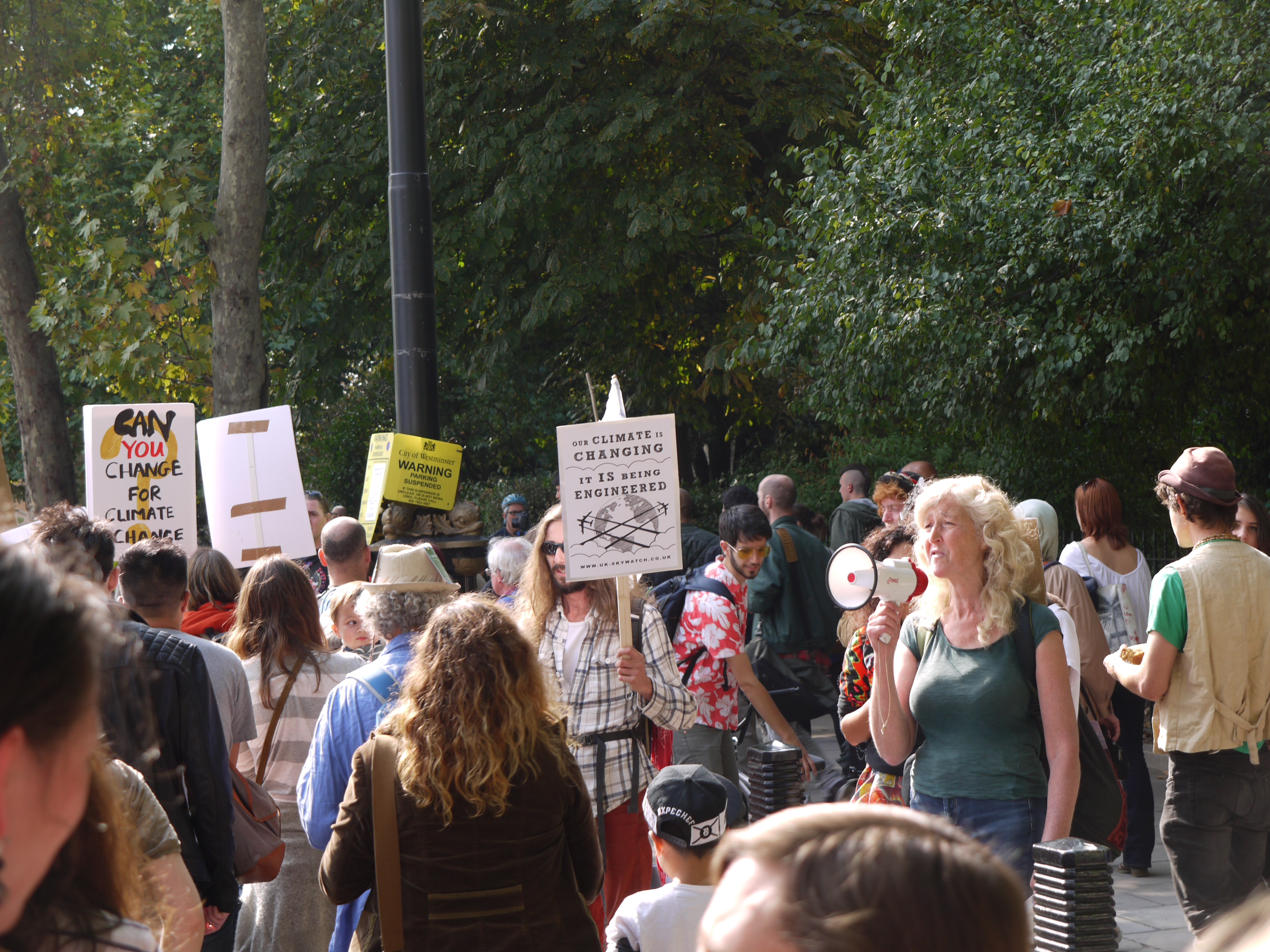 You forget people think Chemtrails are a thing